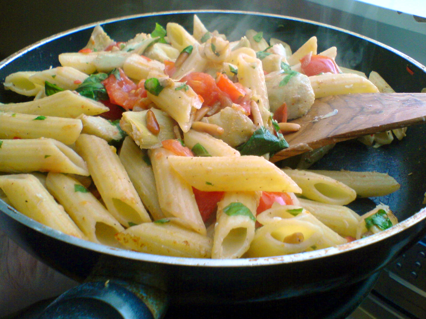 Penne with tomato, artichoke, basil and Pine nut